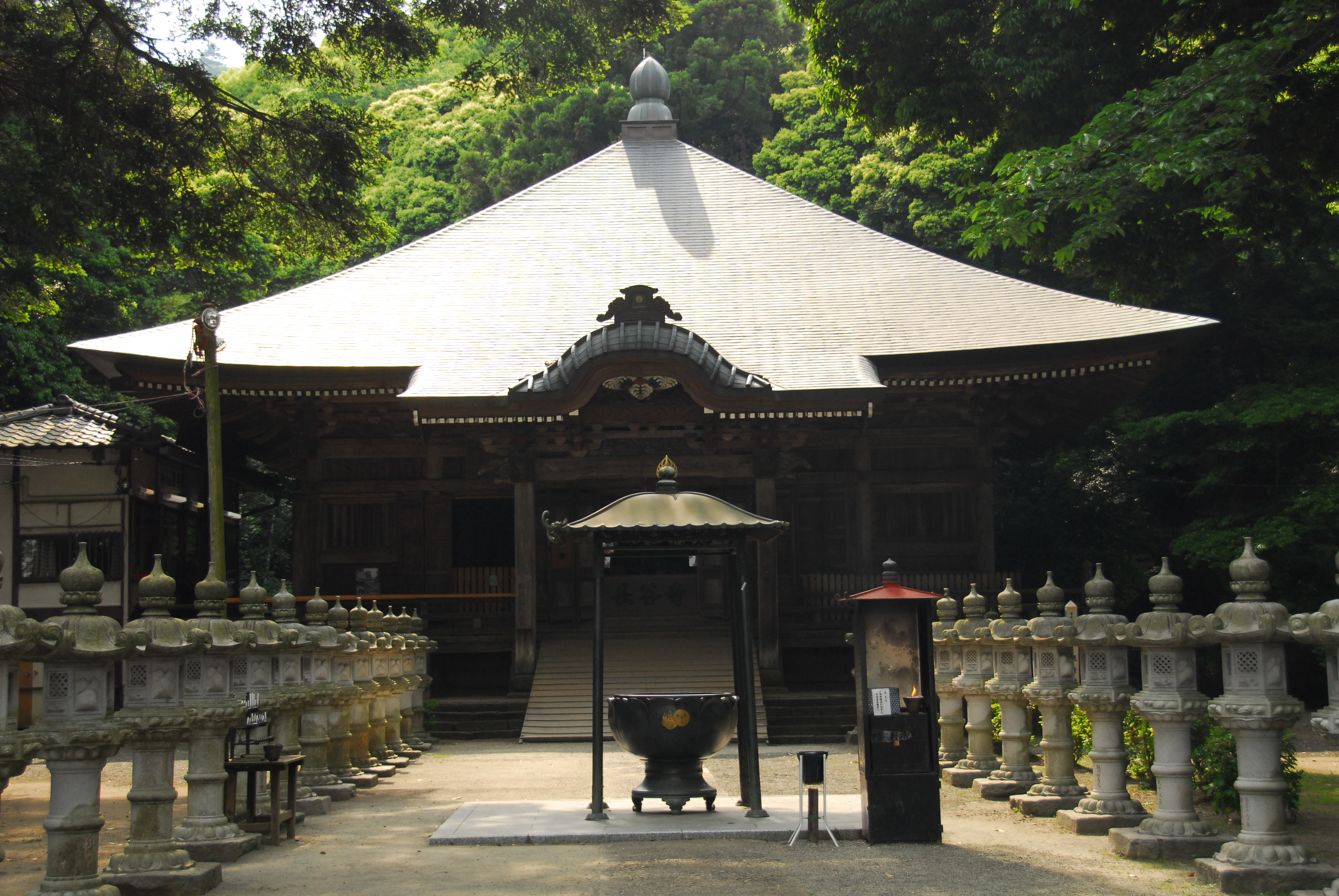 Main Hall of Iiyama Kannon temple in Atsugi, Kanagawa